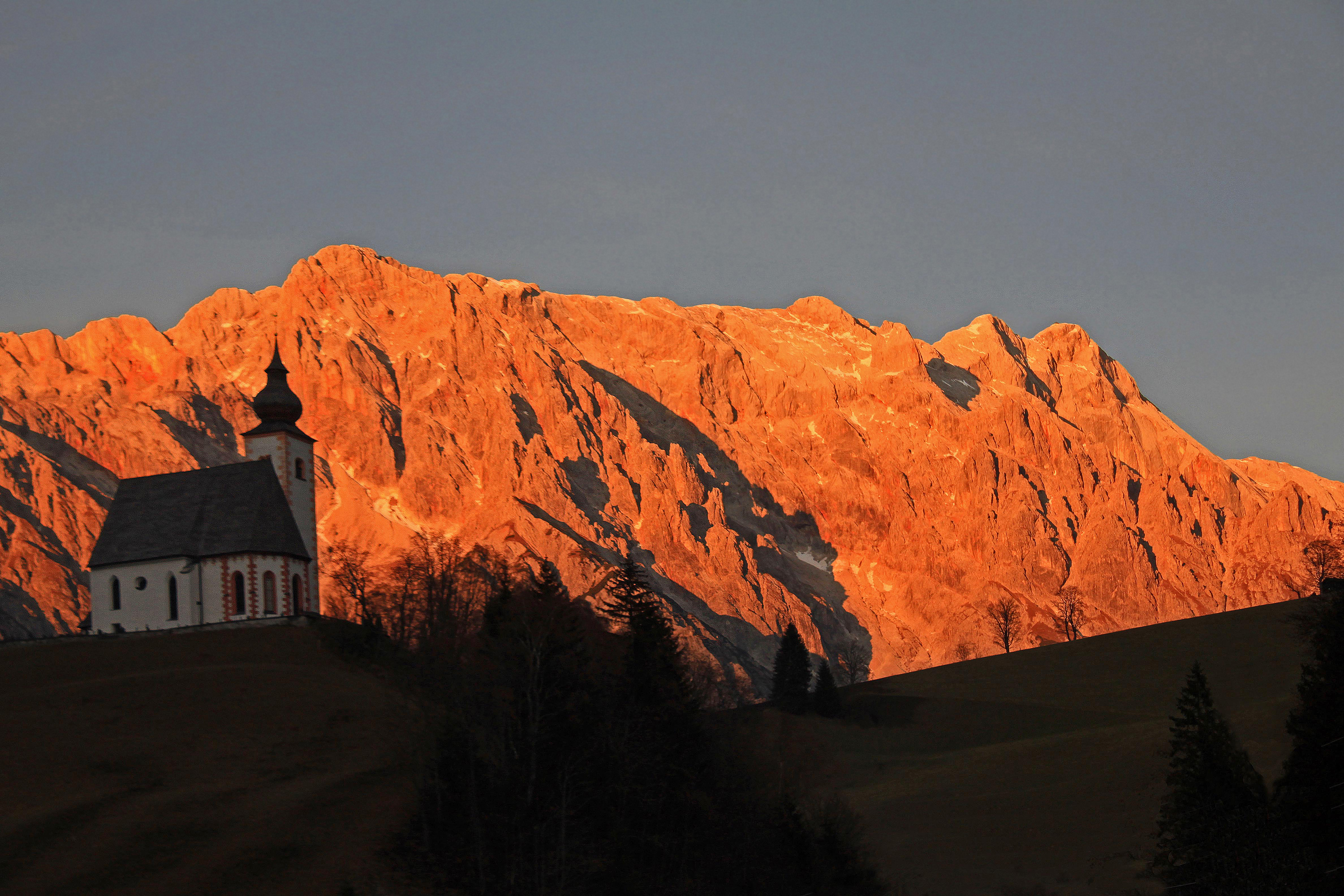 Kath. Pfarrkirche hl. Nikolaus und Friedhof